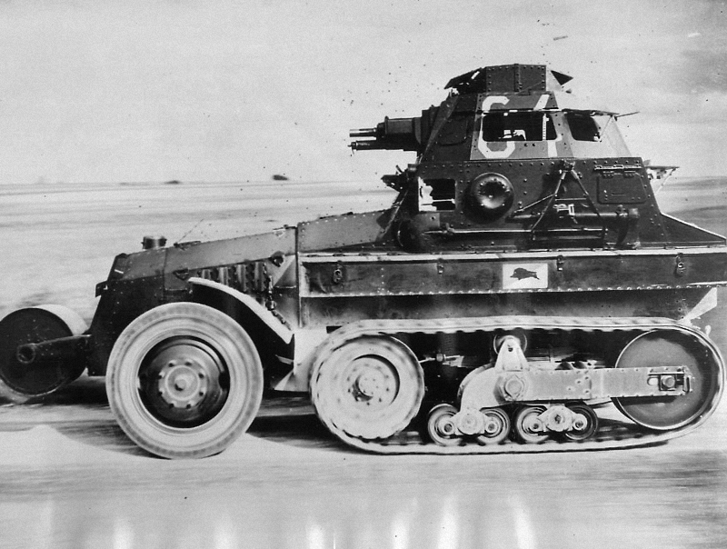 AMC Schneider P 16 moving. Charging boar is the insignia of the 1st Light Mechanized Division (en:1st Light Mechanized Division (France)).